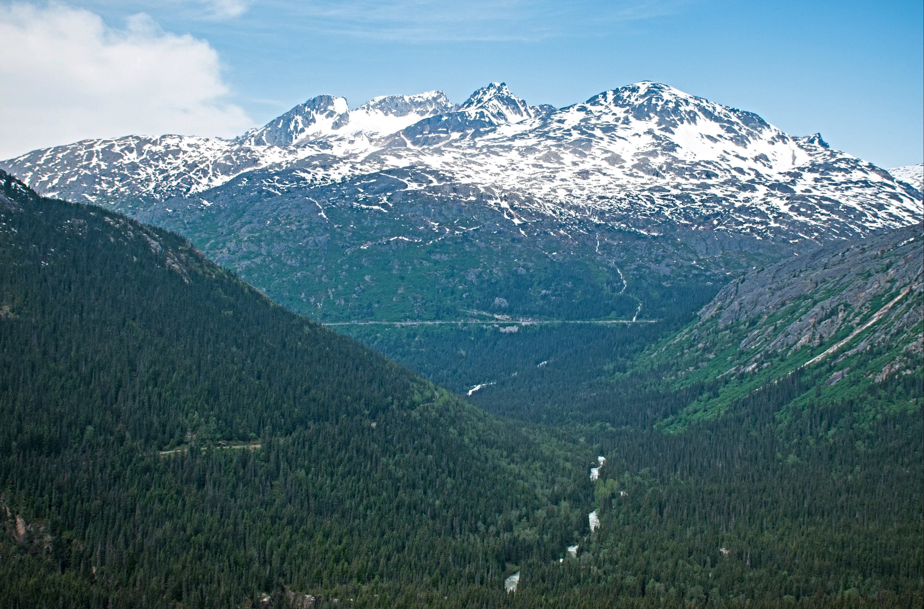 Mount Carmack east aspect seen from White Pass Scenic Railway near Skagway, AK